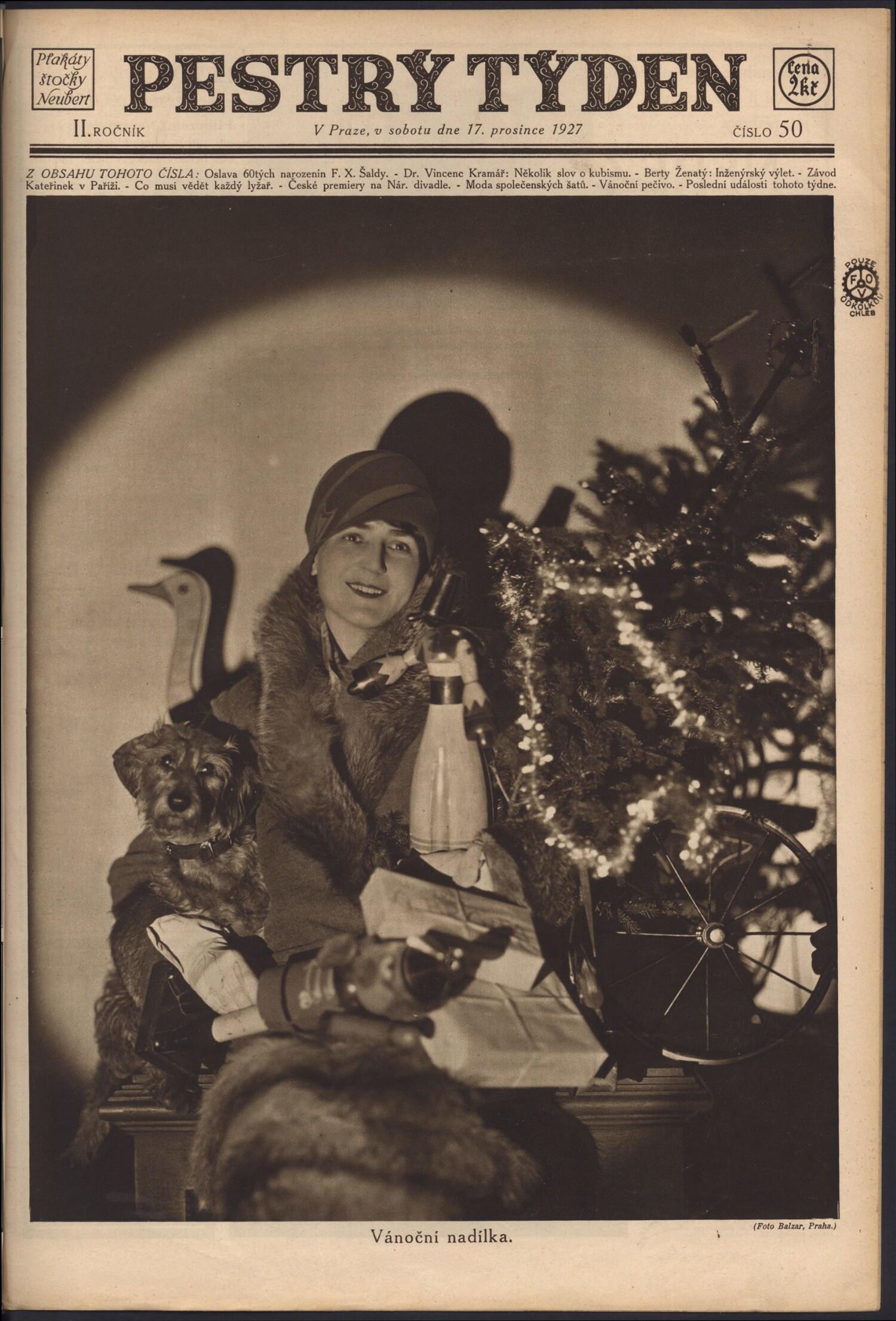 Christmas Eve, photo Jaroslav Balzar, 1927